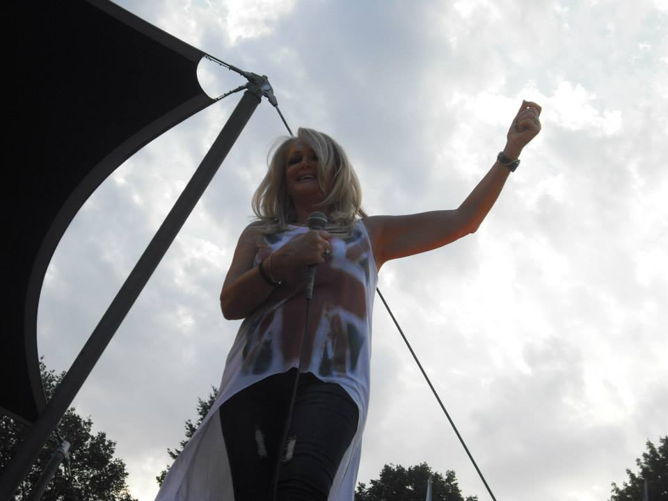 A concert photo of Bonnie Tyler live in Berlin.